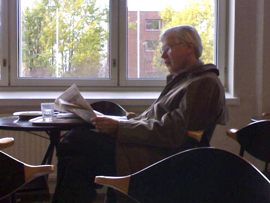 Bengt R. Holmström, a Finnish economist